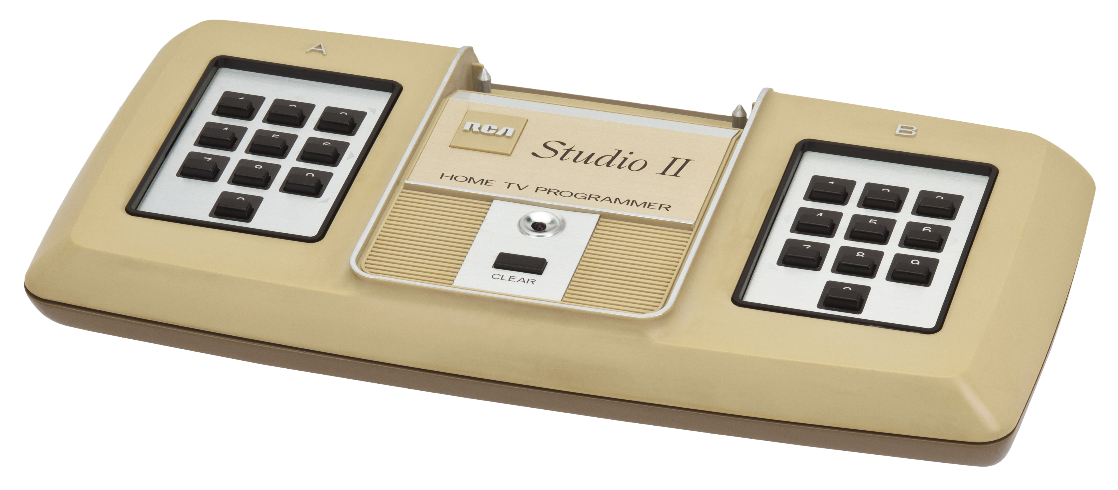 The RCA Studio II, a second-generation video game console released in 1975.